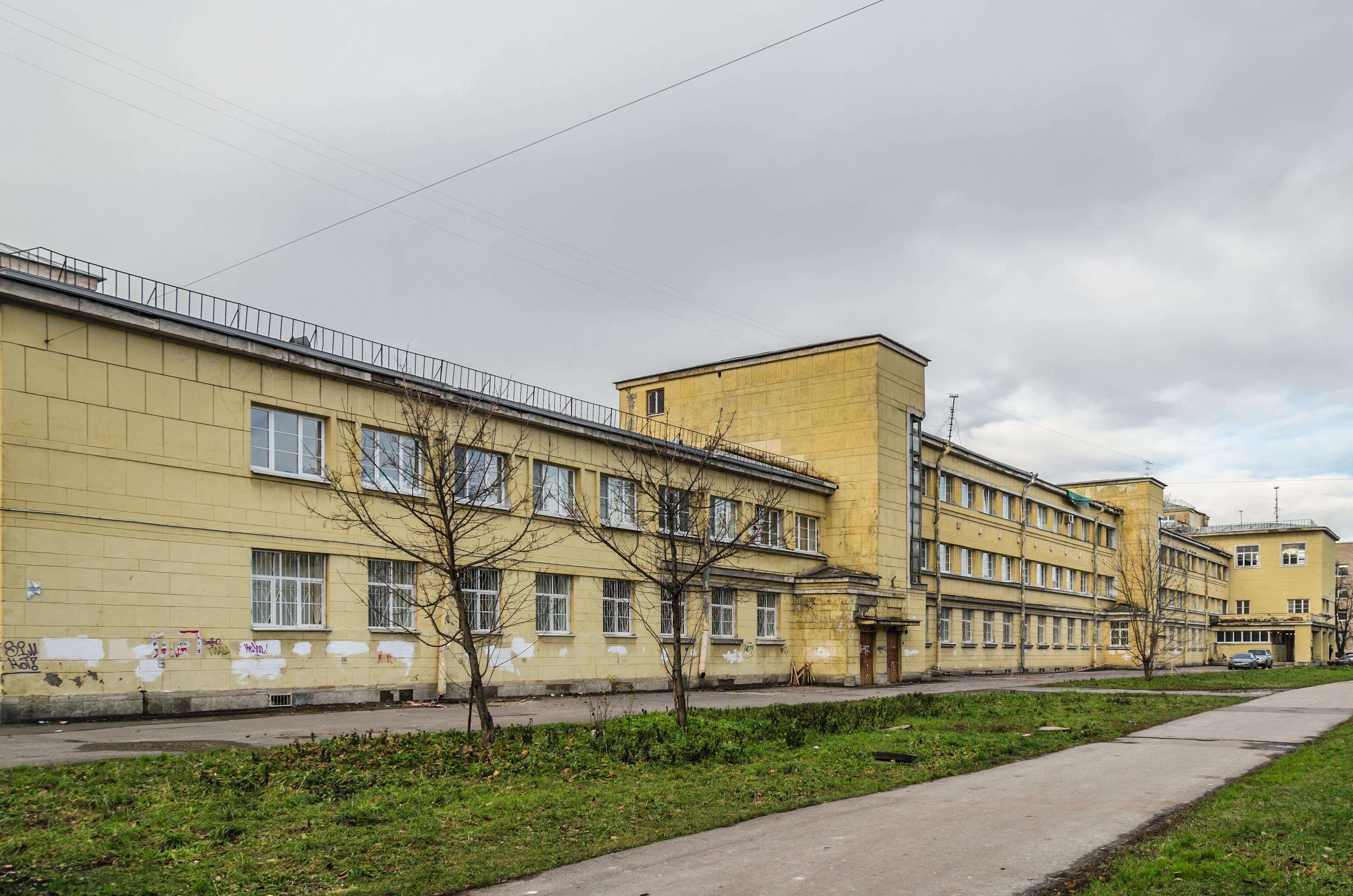 Hospital #14 (Kirovsky Preventorium) in Saint Petersburg